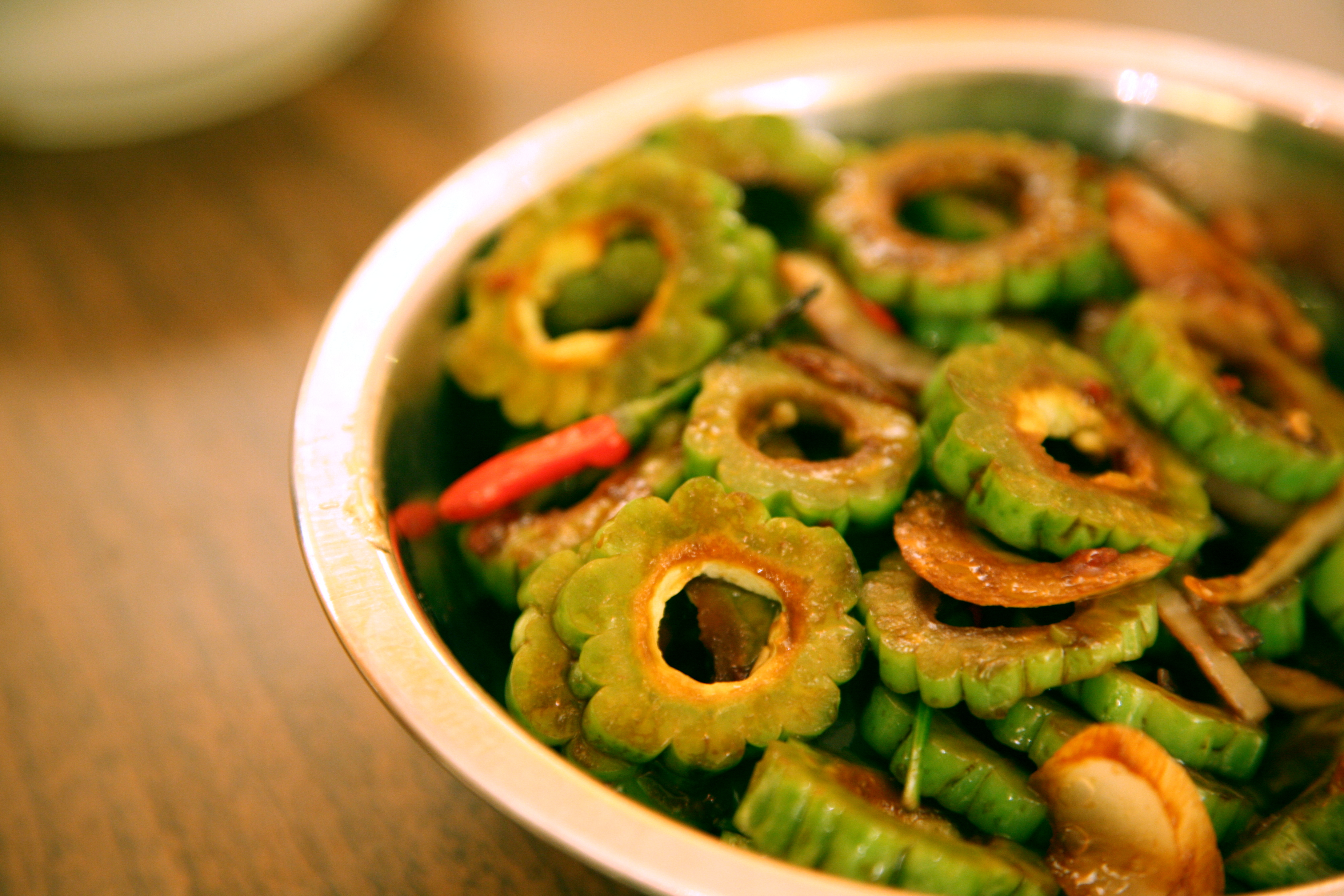 A Malaysian style bitter melon, cooked with sambal, onion, and red bird's-eye chili peppers. Taken in Montreal, Quebec, Canada, with a Canon EOS 5D digital camera.